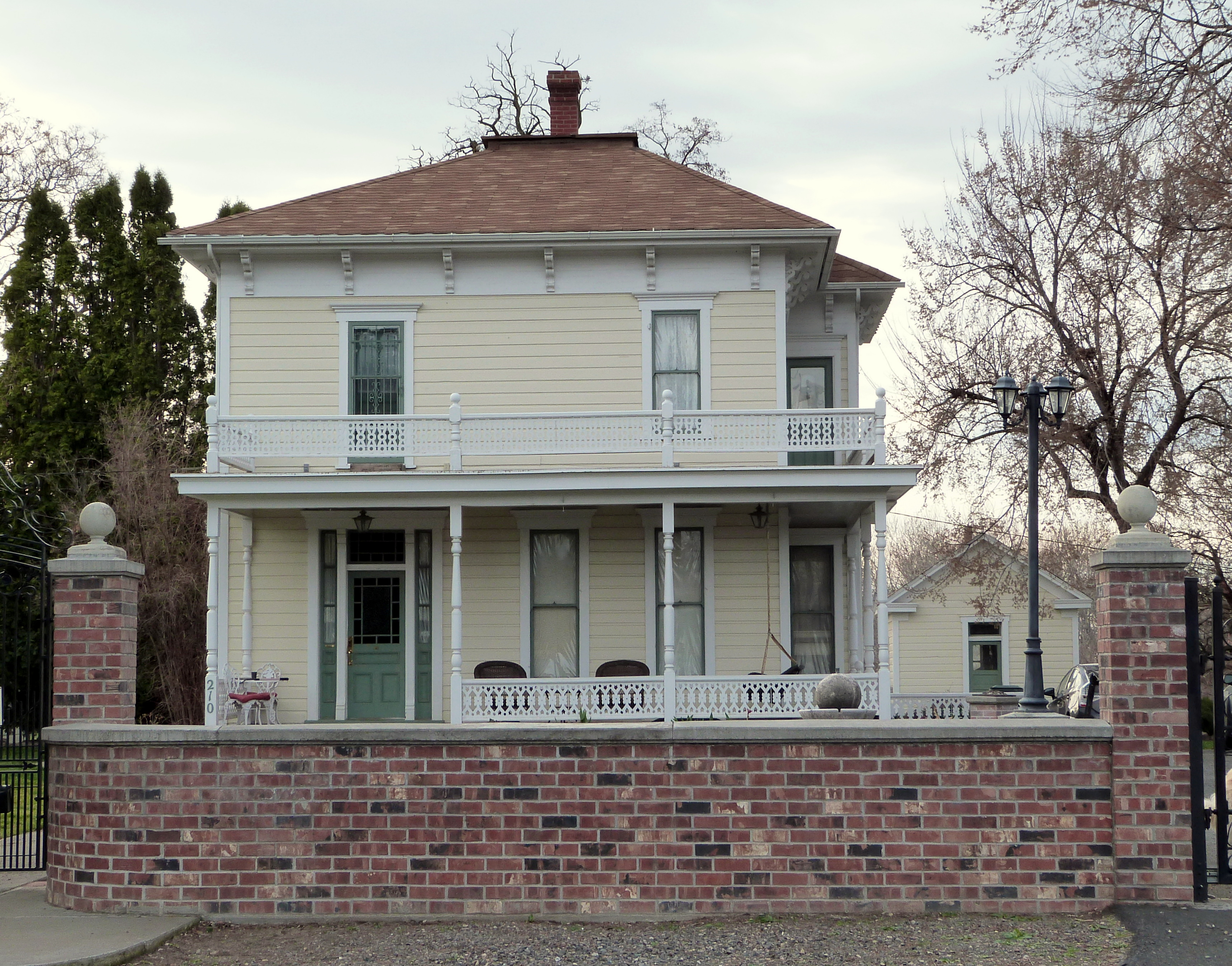 The historic James H. and Cynthia Koontz House (built 1881), located at 210 North Dupont Street in Echo, Oregon, United States, is listed on the US National Register of Historic Places.